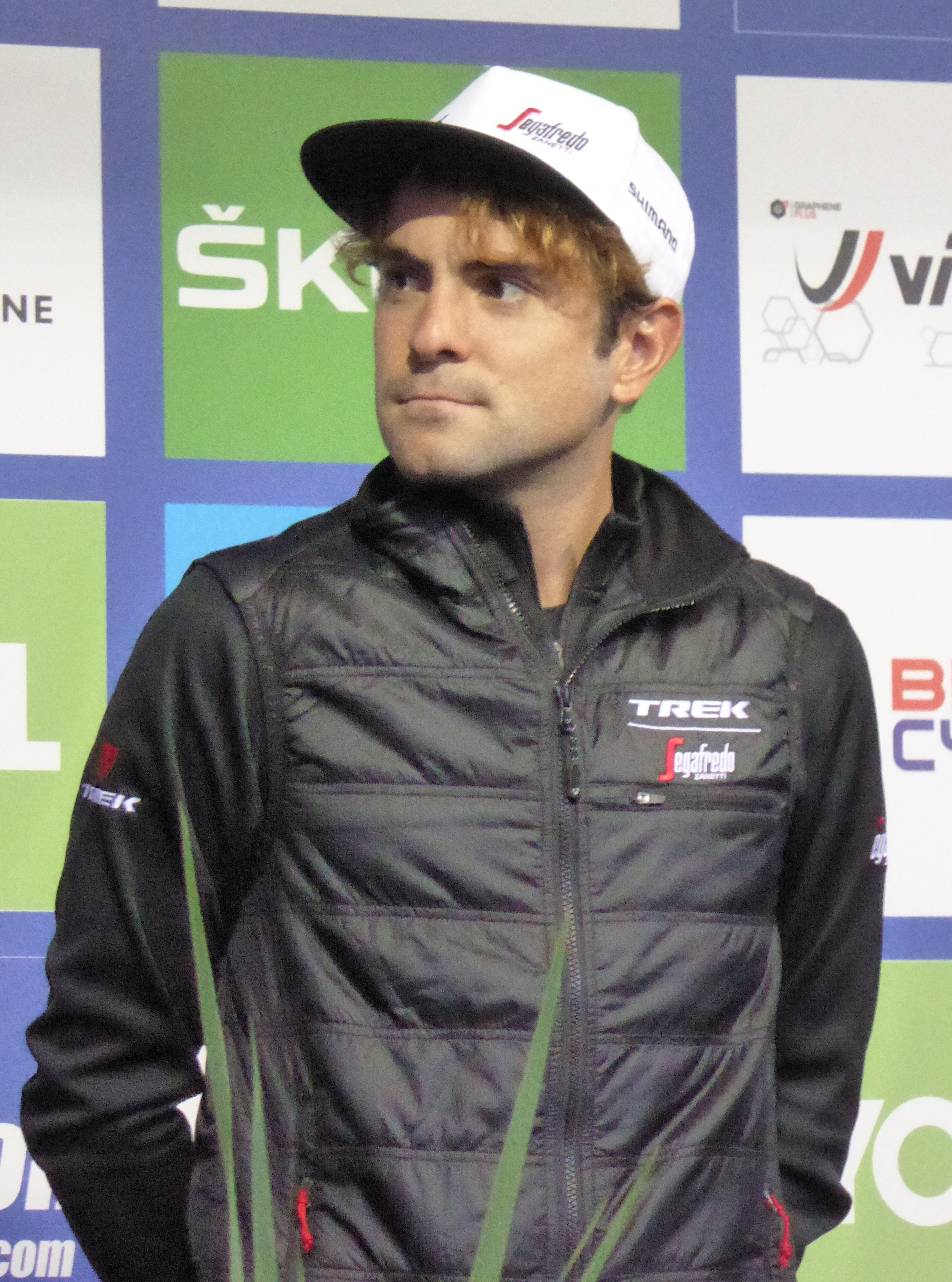 Jacopo Mosca (Trek-Segafredo stagiaire), pictured at the 2016 Tour of Britain team presentation in Glasgow on 3 September 2016.